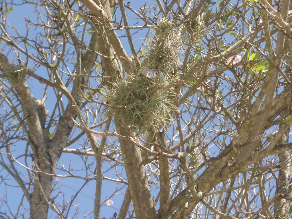 Ball moss Tillandsia recurvata in a Trumpet Tree Tabebuia rosea